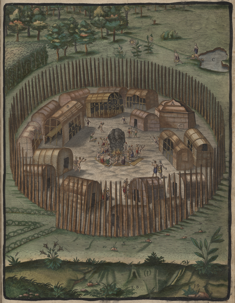 Colored version of Theodor de Bry's engraving of the American Indian village of Pomelooc, originally published as an illustration in Thomas Hariot's 1588 book entitled "A Briefe and True Report of the New Found Land of Virginia."